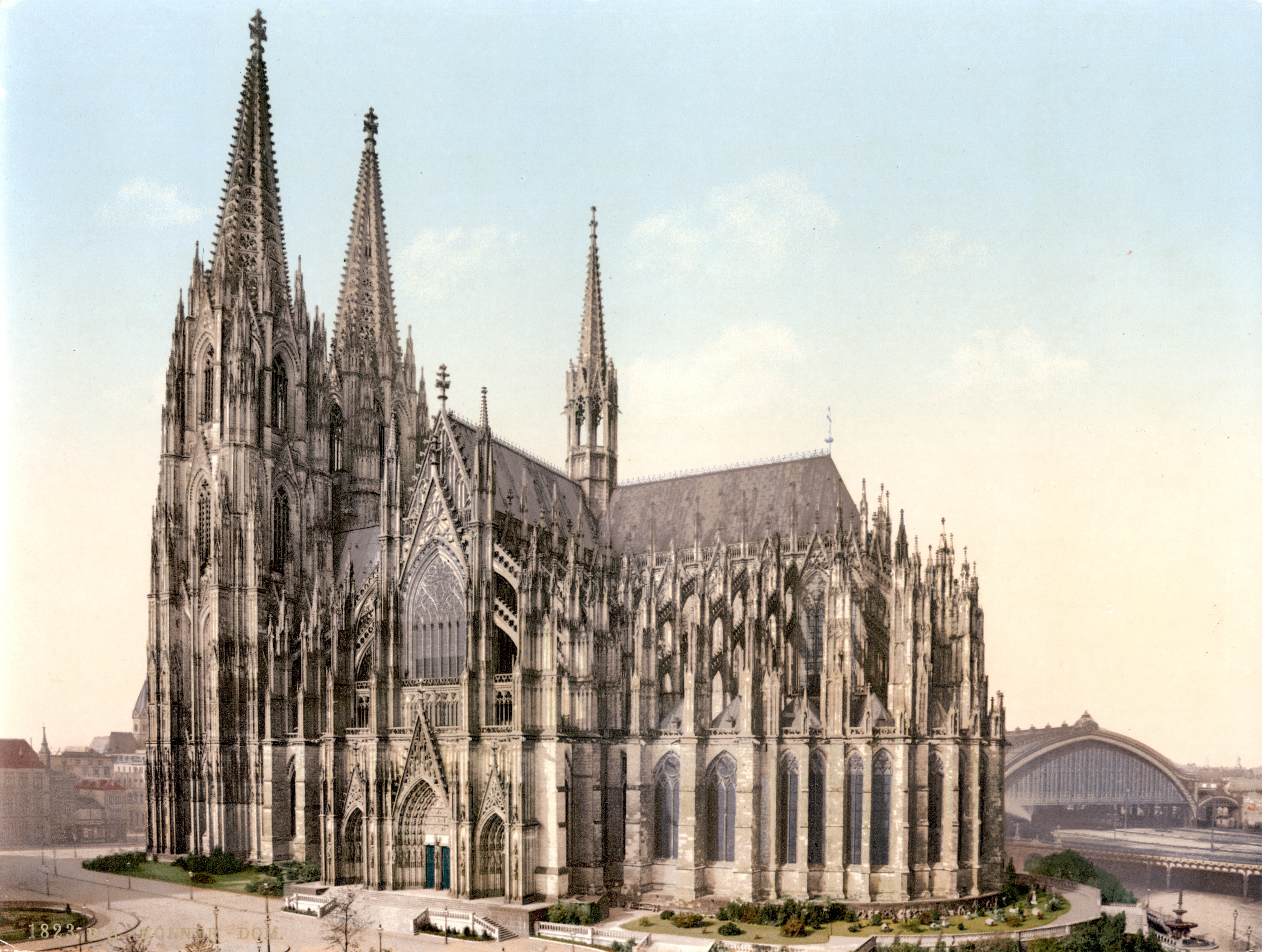 The Cologne Cathedral between ca. 1890 and ca. 1900